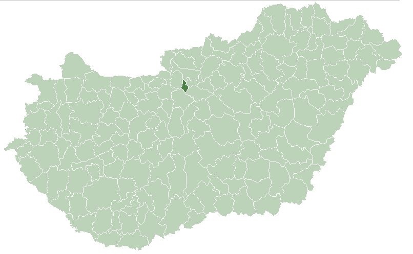 Location of subregion Dunakeszi, Hungary